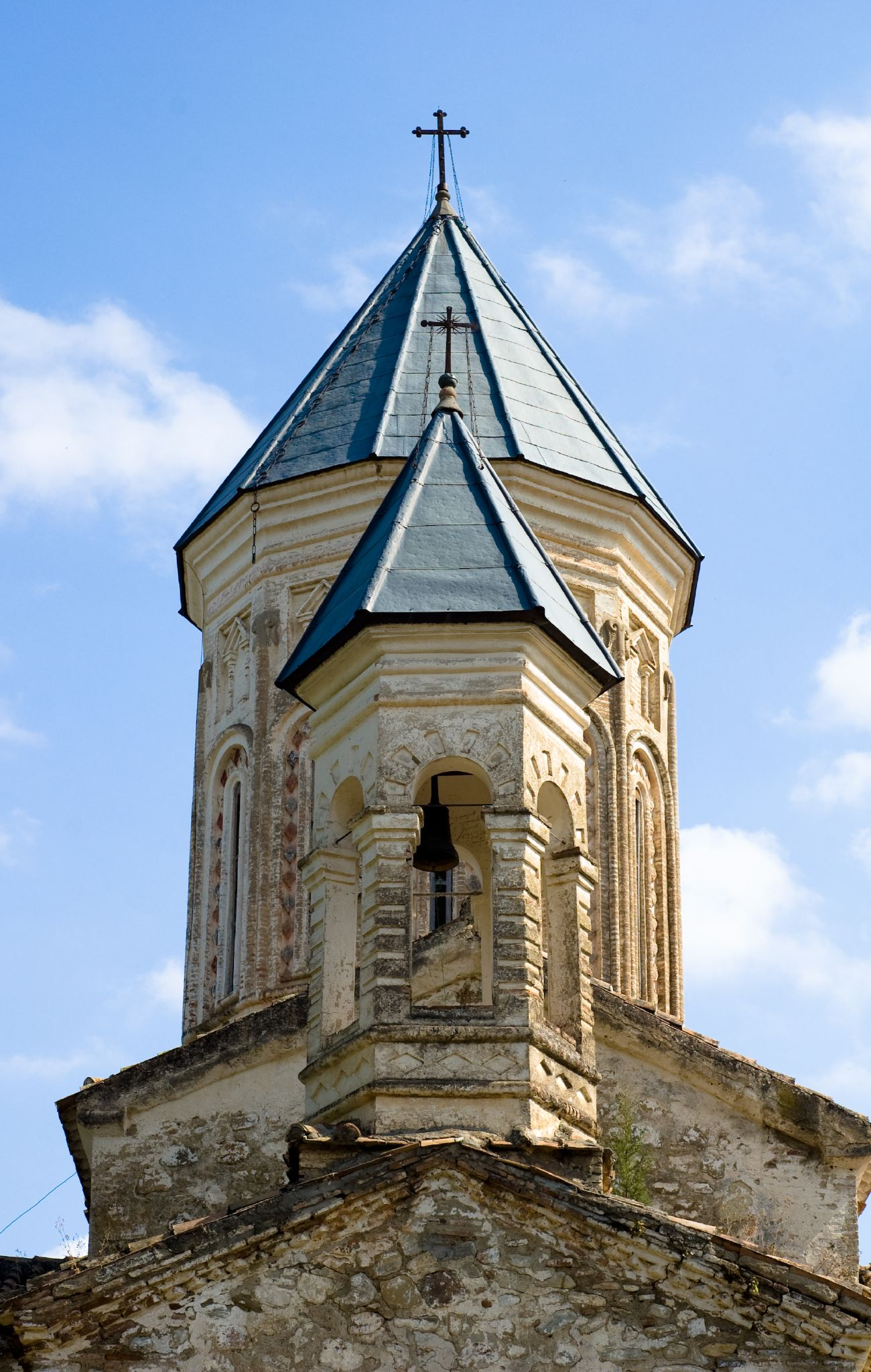 Dome and the bell-tower of the Church of Deity of the Ikalto Academy, in Kakheti, Georgia